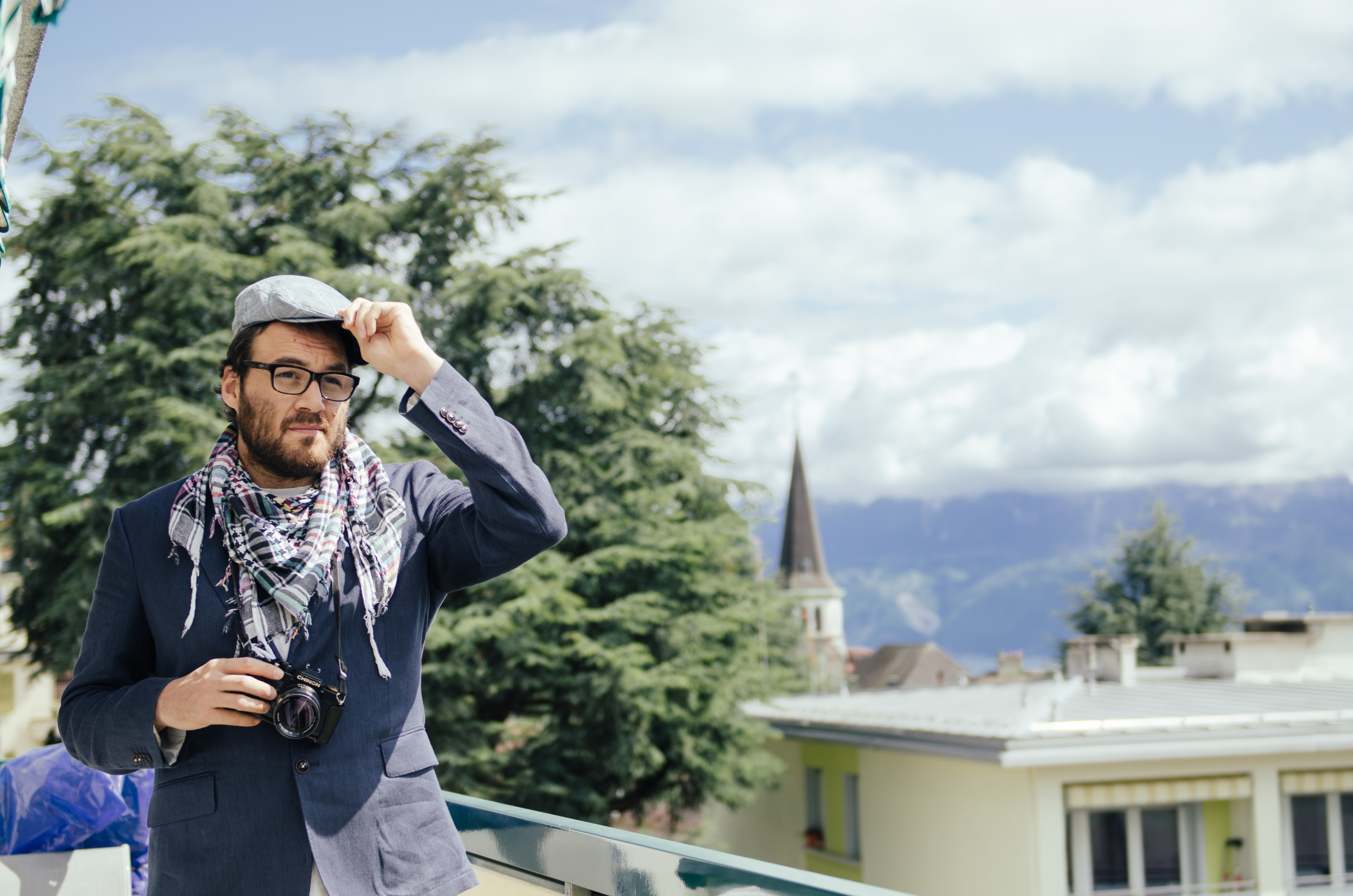 A man (photographer Gabriel Garcia Marengo) identifying his look as "hipster"